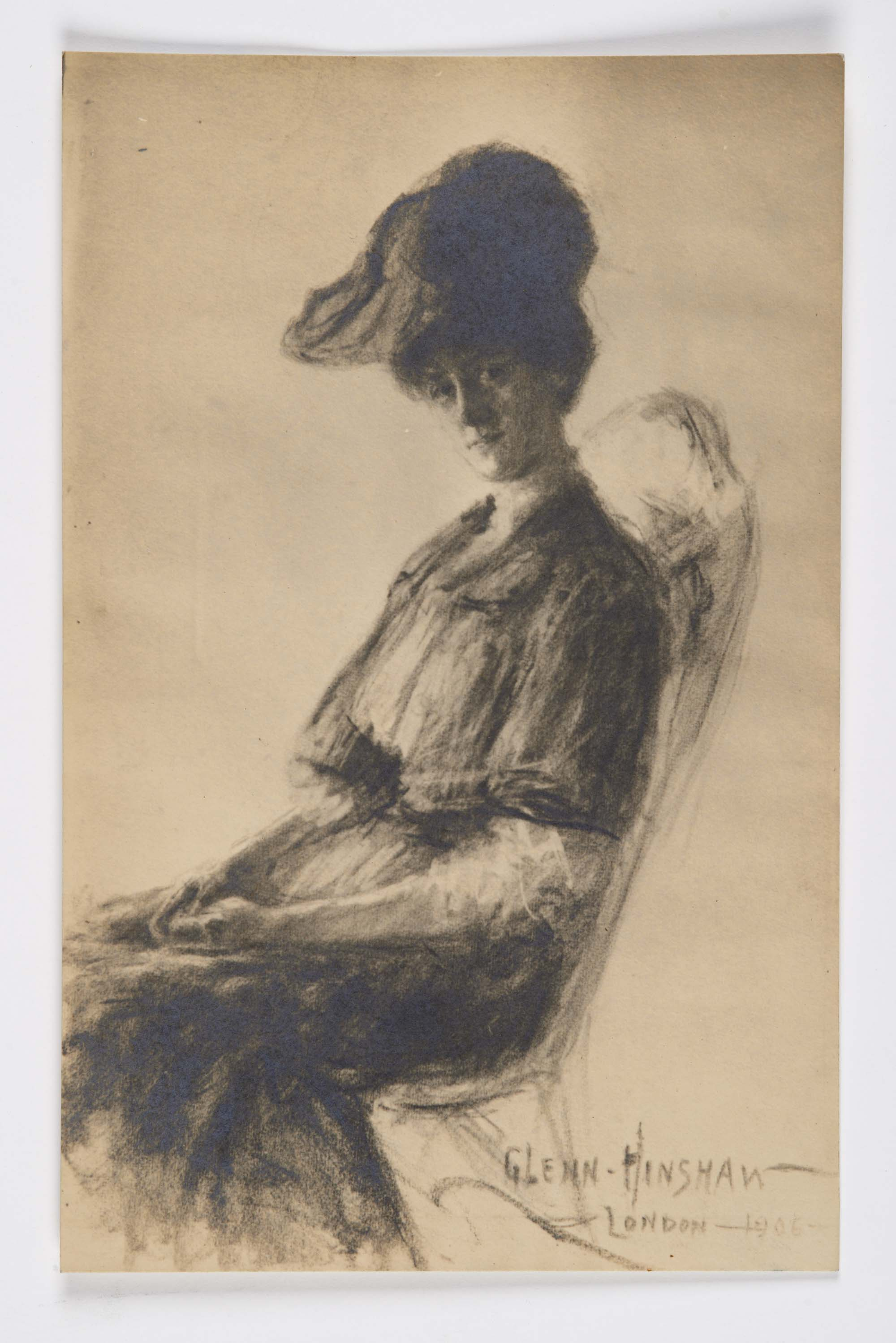 Postcard with portrait of Louise M. Eates, drawn and signed by Glenn Hinshaw in 1906, produced as part of the women's pro-suffrage campaign. Glenn Hinshaw died 1946